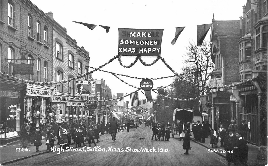 For context, This image is out of copyright and free for reuse without the need for attribution or requesting permission.